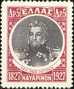 Greece stamp, Adm. van der Heyden (Login Geiden), 100th anniversary of the Battle of Navarino, 5 drachmas, 1927